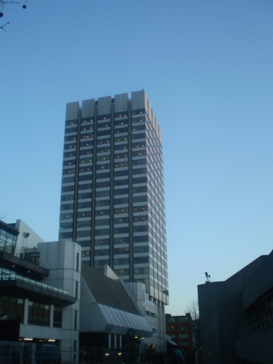 London Weekend Television Studios, the home of GMTV & This Morning